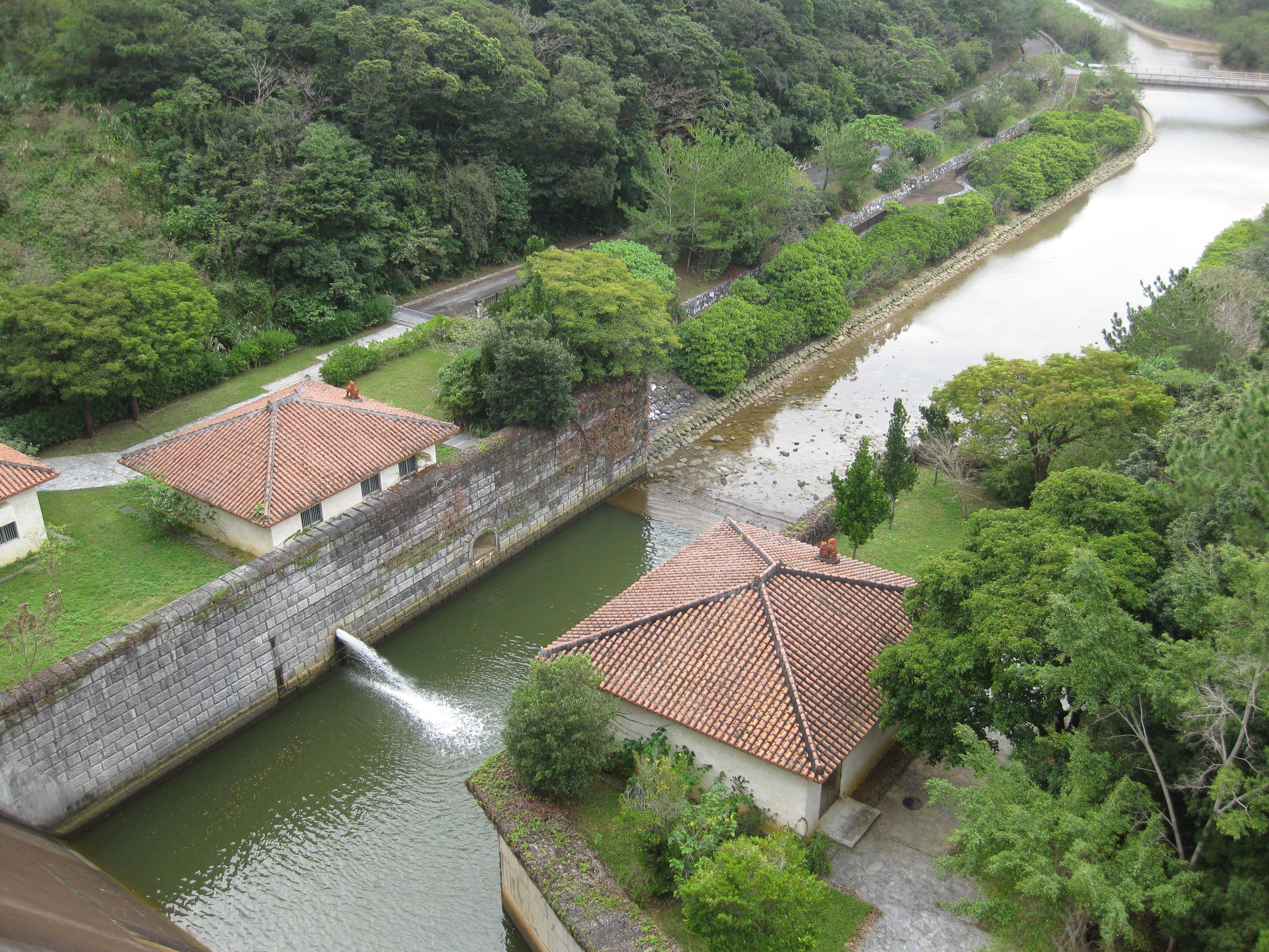 Lower of Kanna Dam in Okinawa, Japan